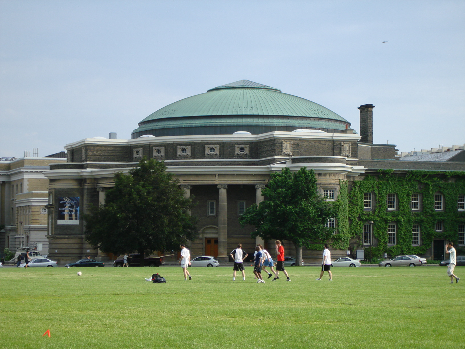 University of Toronto Summary Author: SM108 Source: My Sony DSC-W100